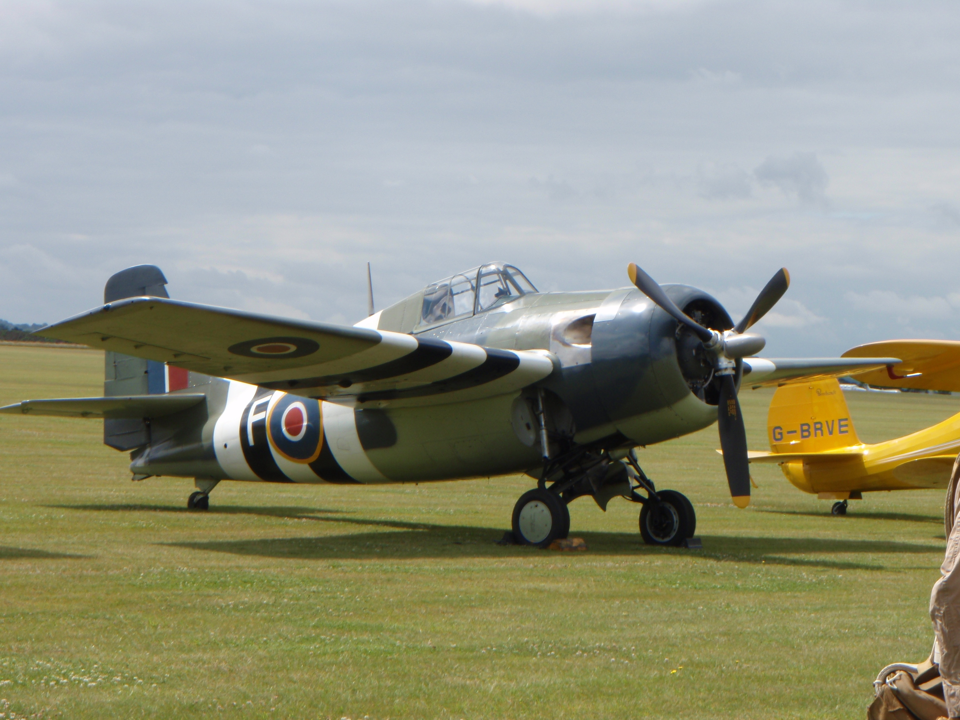 A Grumman F4F Wildcat at Duxford 'Flying Legends' air show in 2008